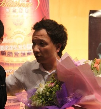 Cellist Chu Yibing in Central Conservatory of Music, September 2009